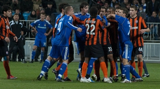 Match Dynamo-Shahtar